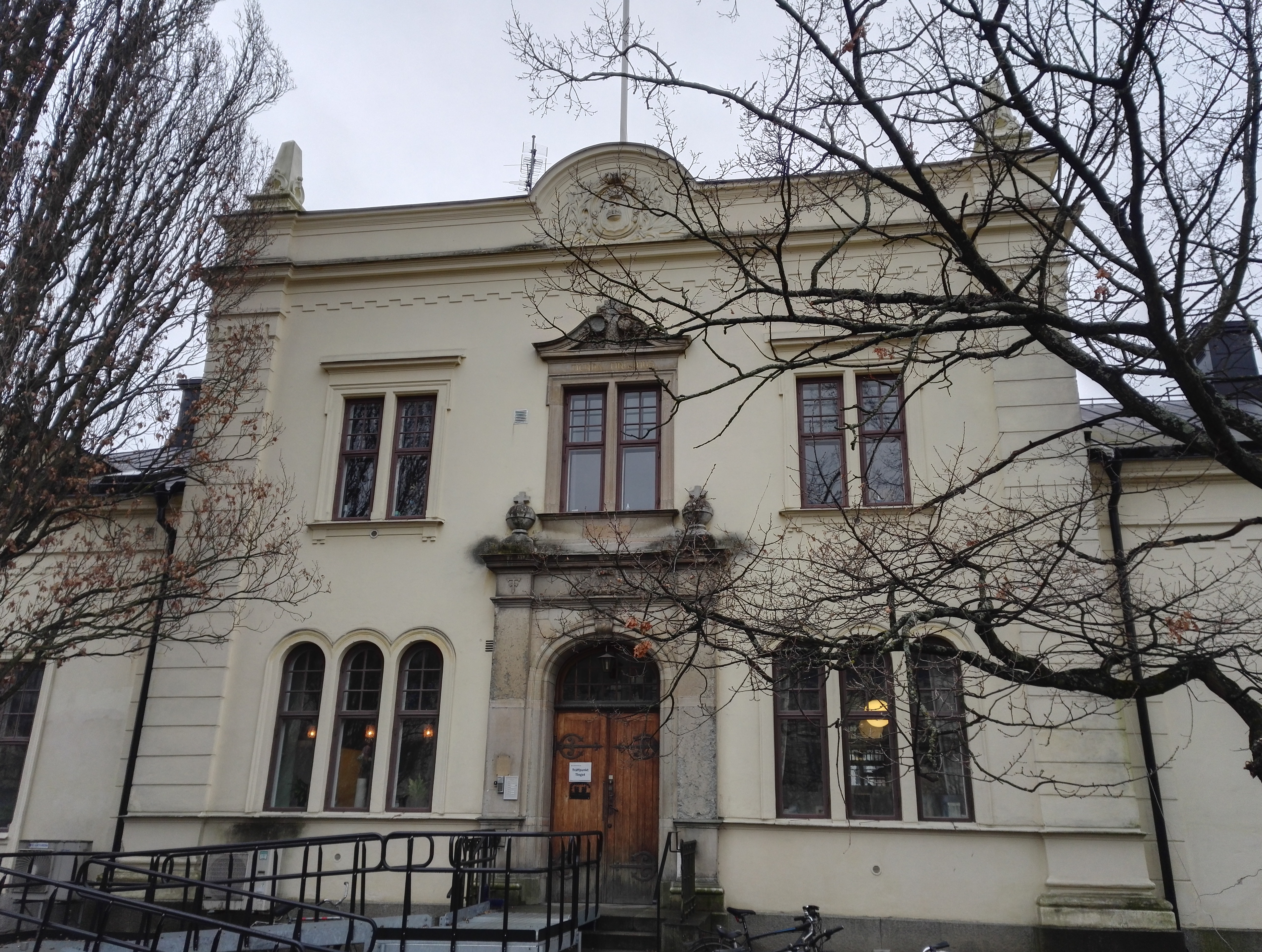 Tiunda tingshus in Uppsala 2017 as seen from Järnvägspromenaden 19.